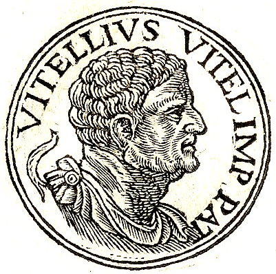 Lucius Vitellius was the youngest of four sons of quaestor Publius Vitellius and the only one that did not die through politics.